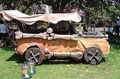 A Barney Rubble Mobile created by the Sydney Reclaim the Streets Collective.